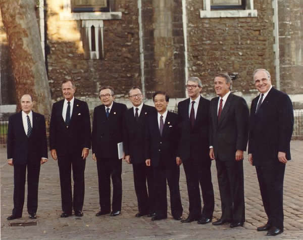 Leaders of Group of Seven posed for the photograph in London on July 15, 1991.